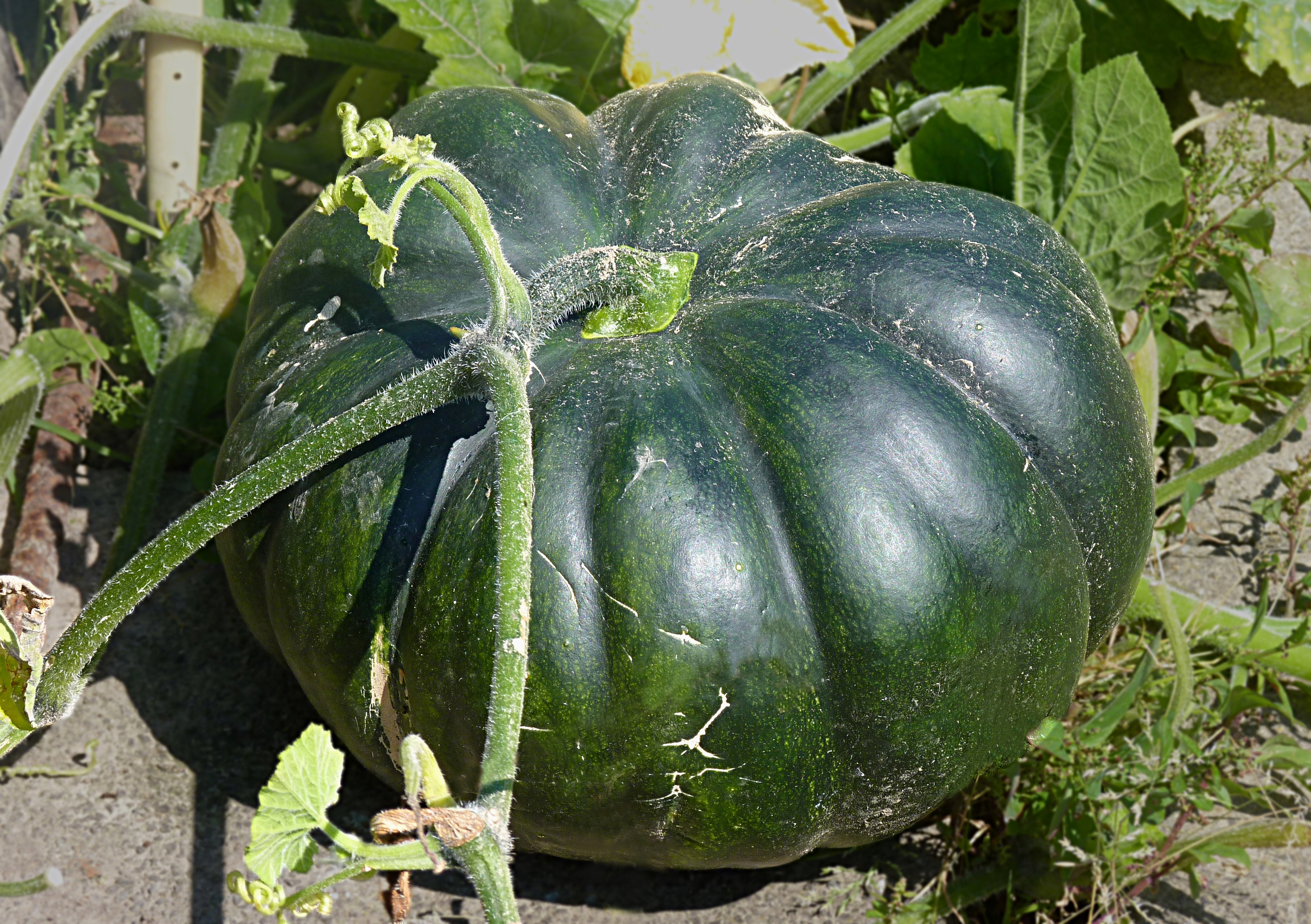 Pumpkin, in a vegetable garden in Belgium.